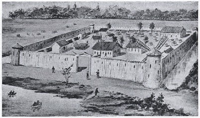 Fort Lachine in 1689